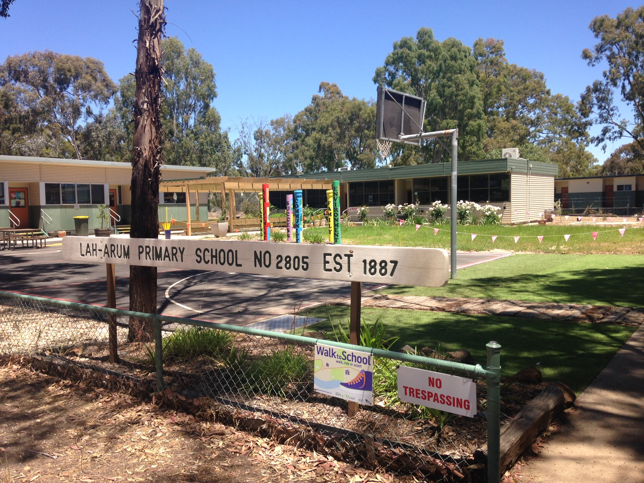 Victorian school No. 2805 established 1887